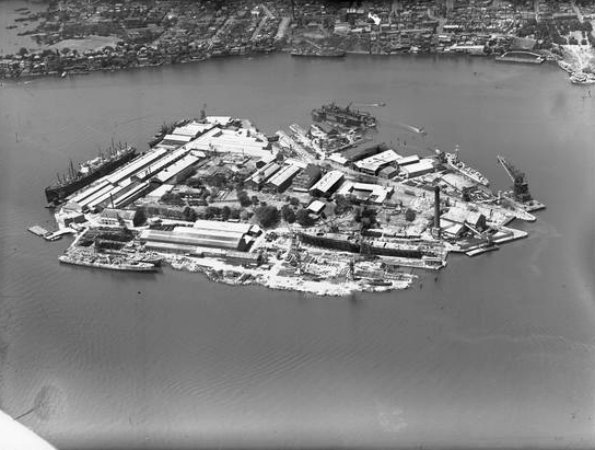 Aerial photograph of Cockatoo Island, Sydney Harbour. Ships in this photograph, are (from bottom left corner): 1. At Plate Wharf: HMA Ships Queenborough (inboard) and Quiberon (outboard) at an early stage of conversion to Type 15 Frigates -- 2. On No 1 Building Slipway: HMAS Voyager (Daring class destroyer No 1, launched 1 March 1952) -- 3. At Sutherland Wharf: Floating crane Titan and Tribal class destroyer HMAS Bataan (in refit) -- 4. In floating dock AFD 17: Mortlake Bank -- 5. In Fitzroy Dock: HMAS Koompartoo -- 6. At Bolt Shop Wharf: Tribal class destroyer HMAS Arunta (during modernisation refit) -- 7. At Cruiser Wharf: P&O MV Palana during major grounding damage repairs (March 1951 to October 1952).